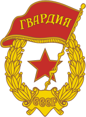 «Guards patch» to military personnel serving in Guards units, Guards formations, or Guards troops of the Red Army, version 1942.